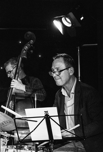 Founding members of the New Zealand group The Troubles John Rae and Patrick Bleakley